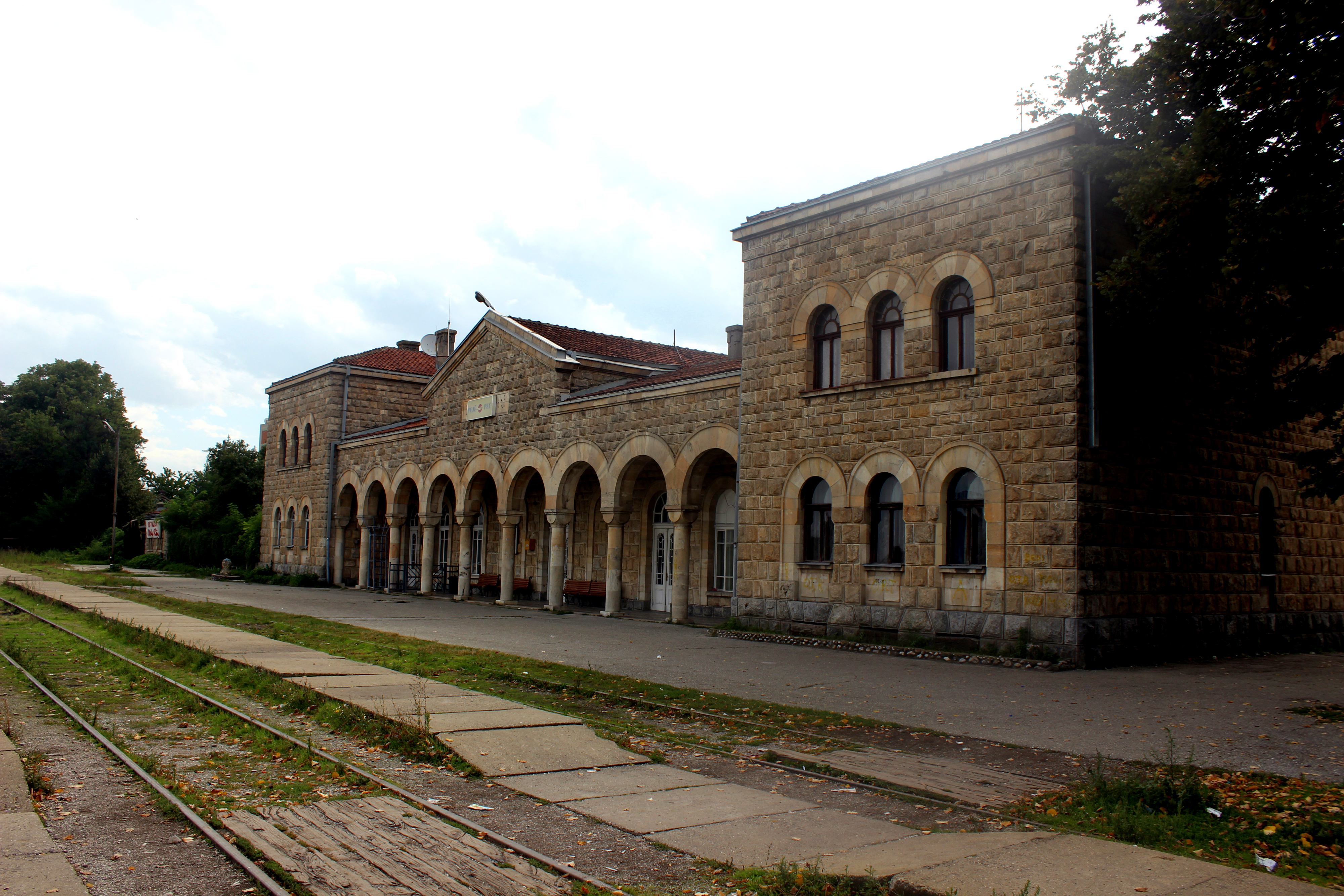 Train station, Peje